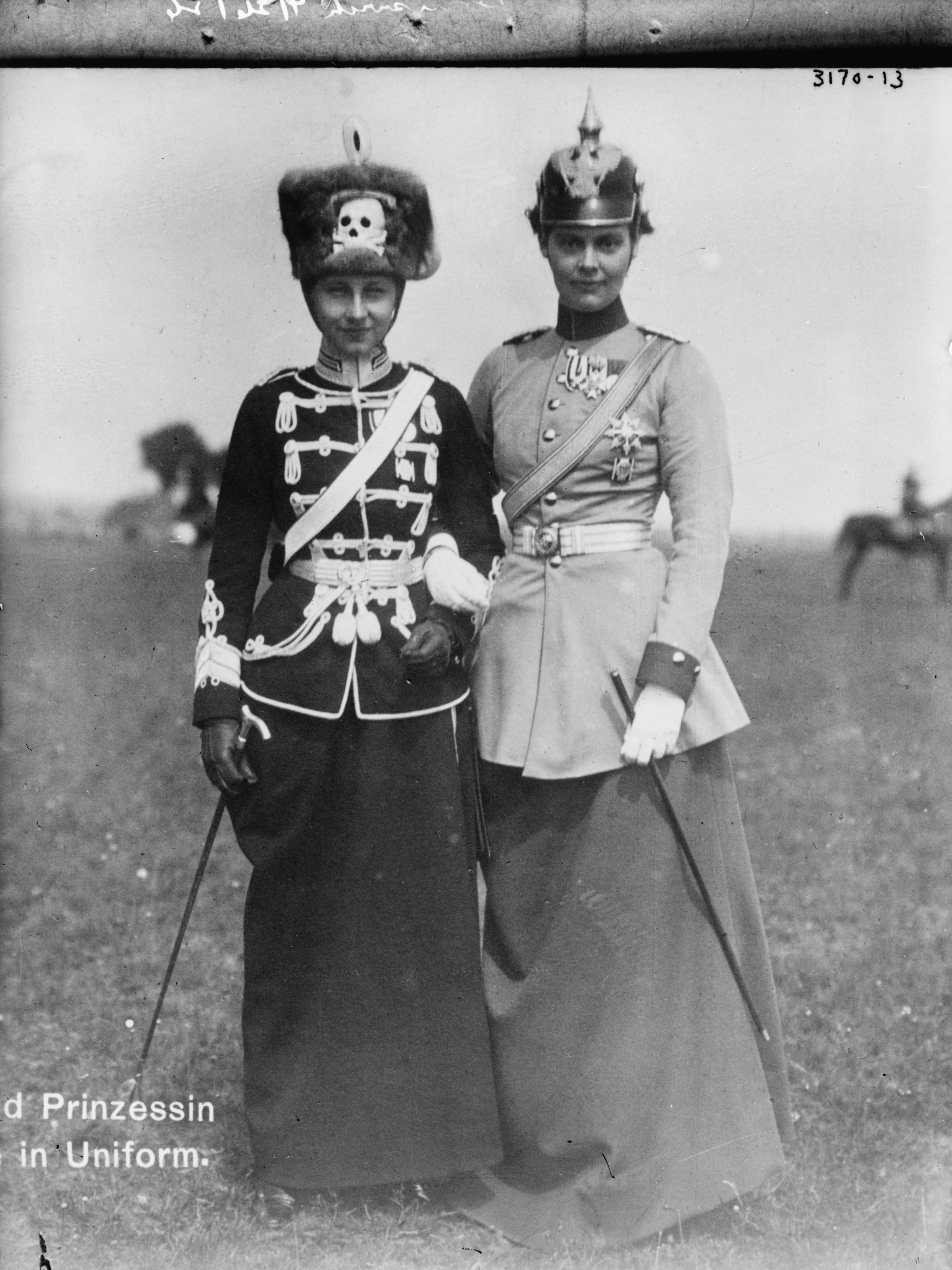 Viktoria Luise, Duchess Brunswick and her sister-in-law Crown Princess Cecilie.Reproduction Number: LC-DIG-ggbain-16734